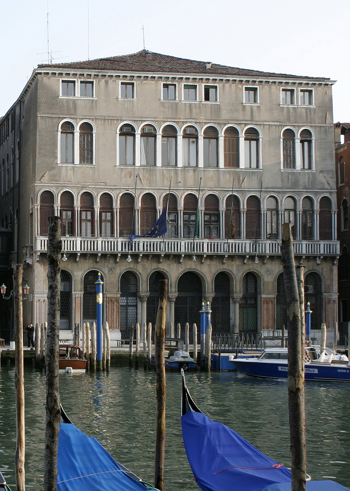 Venice – Palazzo Farsetti – Now used as a city hall palace of Venice.